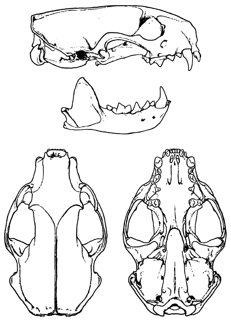 European polecat skull